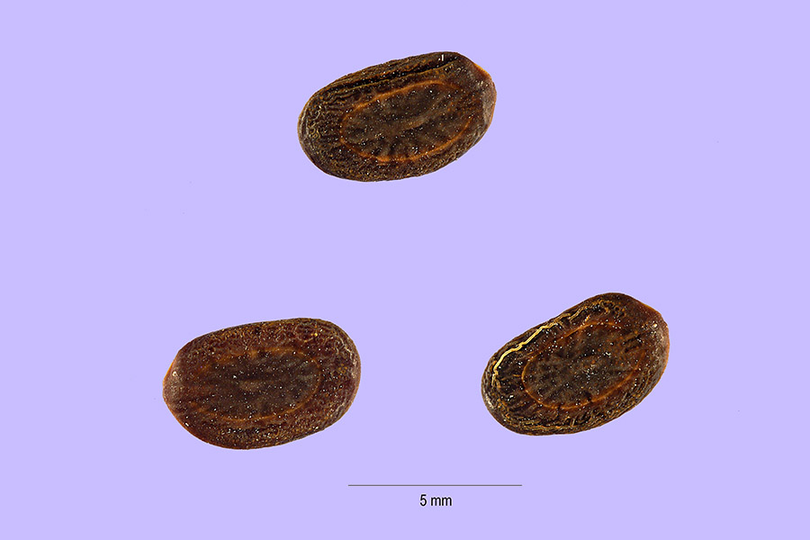 Seeds of Acacia tortilis